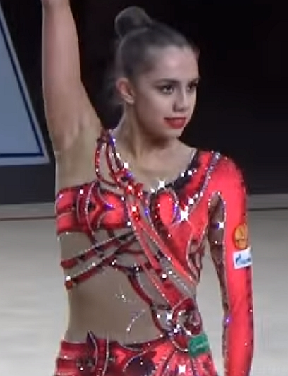 Margarita Mamun, a Russian rhythmic gymnast.